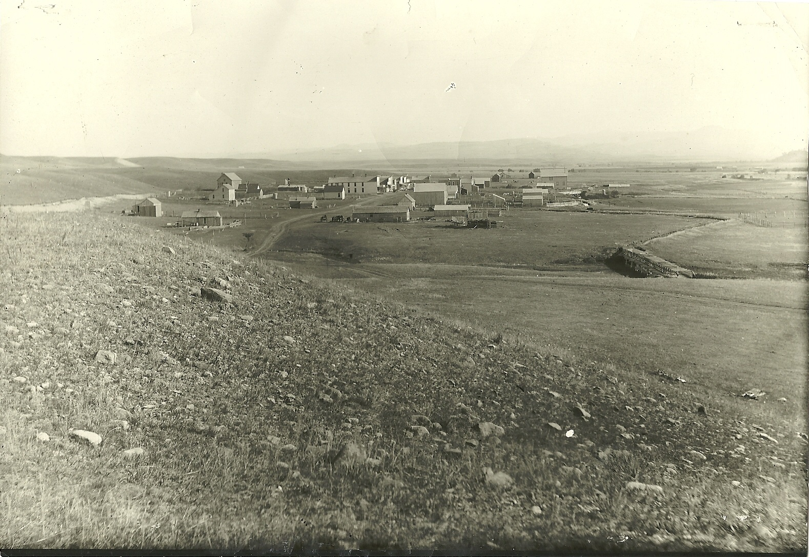 The town of Minnesela, South Dakota c. 1890. The township is now a ghost town. The wagon trail runs from north to south through the town. The long white building is the Minnesela Hotel and is the only remaining building. The large building on the right of the street was the flour mill, torn down in early 1957. The school was built on the hills in the foreground.